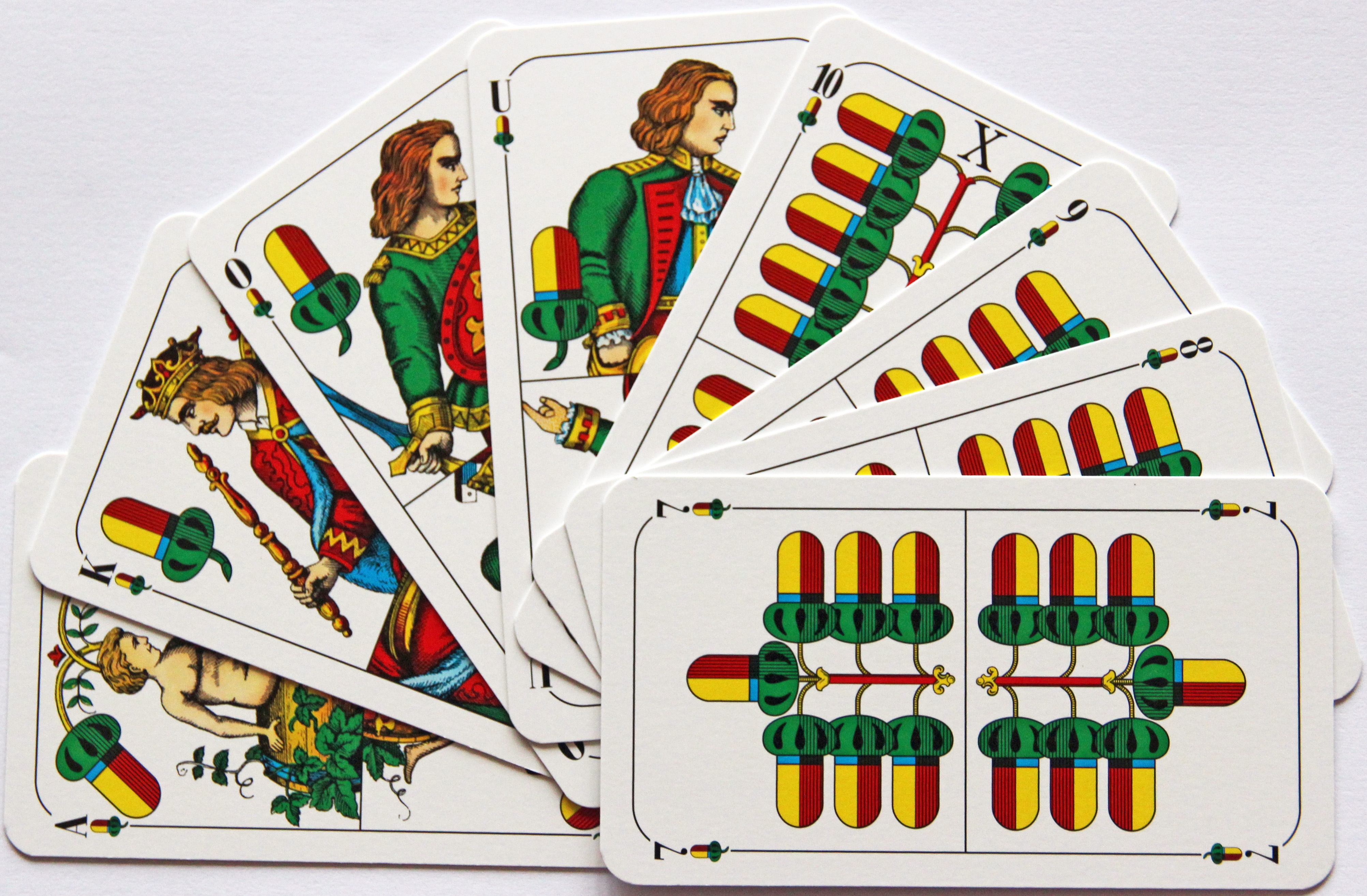 The suit of Acorns from a Bavarian-pattern, German-suited pack